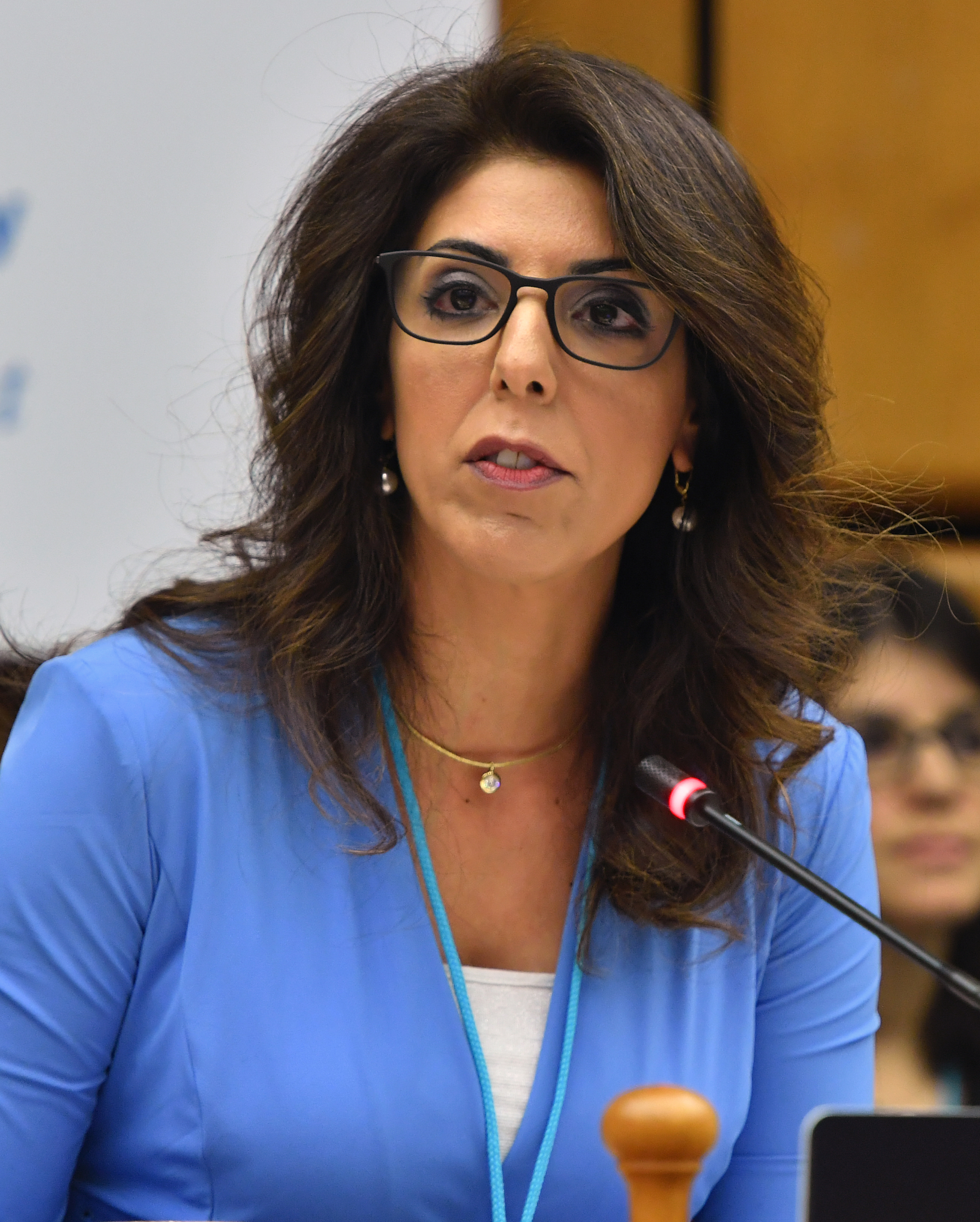 Ambassador Leena Al-Hadid of Jordan takes over as new Chairperson of the IAEA Board of Governors. IAEA Vienna, Austria, 24 September 2018 Photo Credit: Dean Calma / IAEA